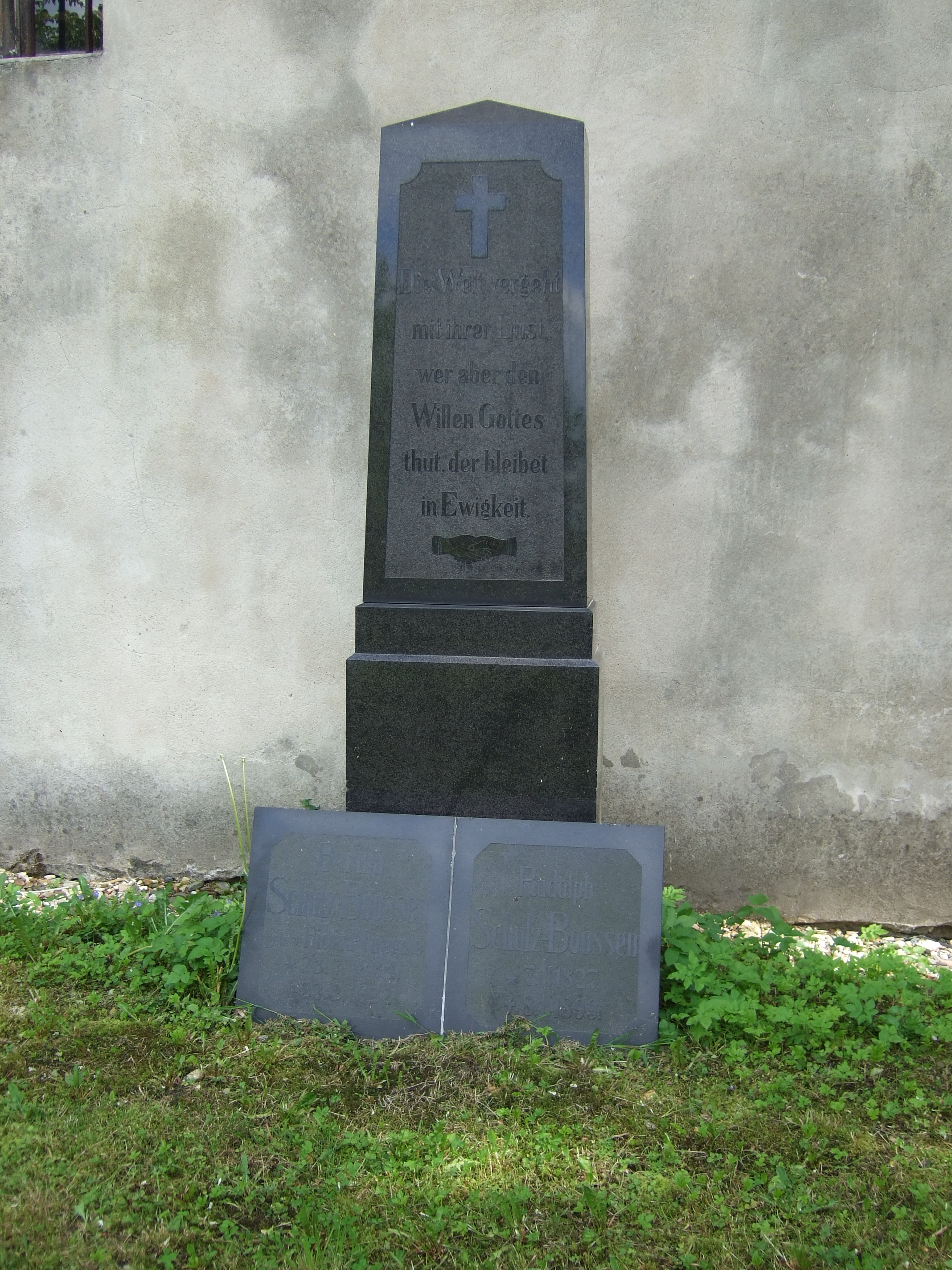 Grave of Bertha Schulz-Booßen b. von Ricaud-Tiregale (* 23. July 1834 in Landsberg an der Warthe; † 22. February 1922 in Booßen) and Rudolph Schulz-Booßen (* 7. January 1827 in Berlin; † 8. January 1899 in Berlin) in Booßen, Germany.